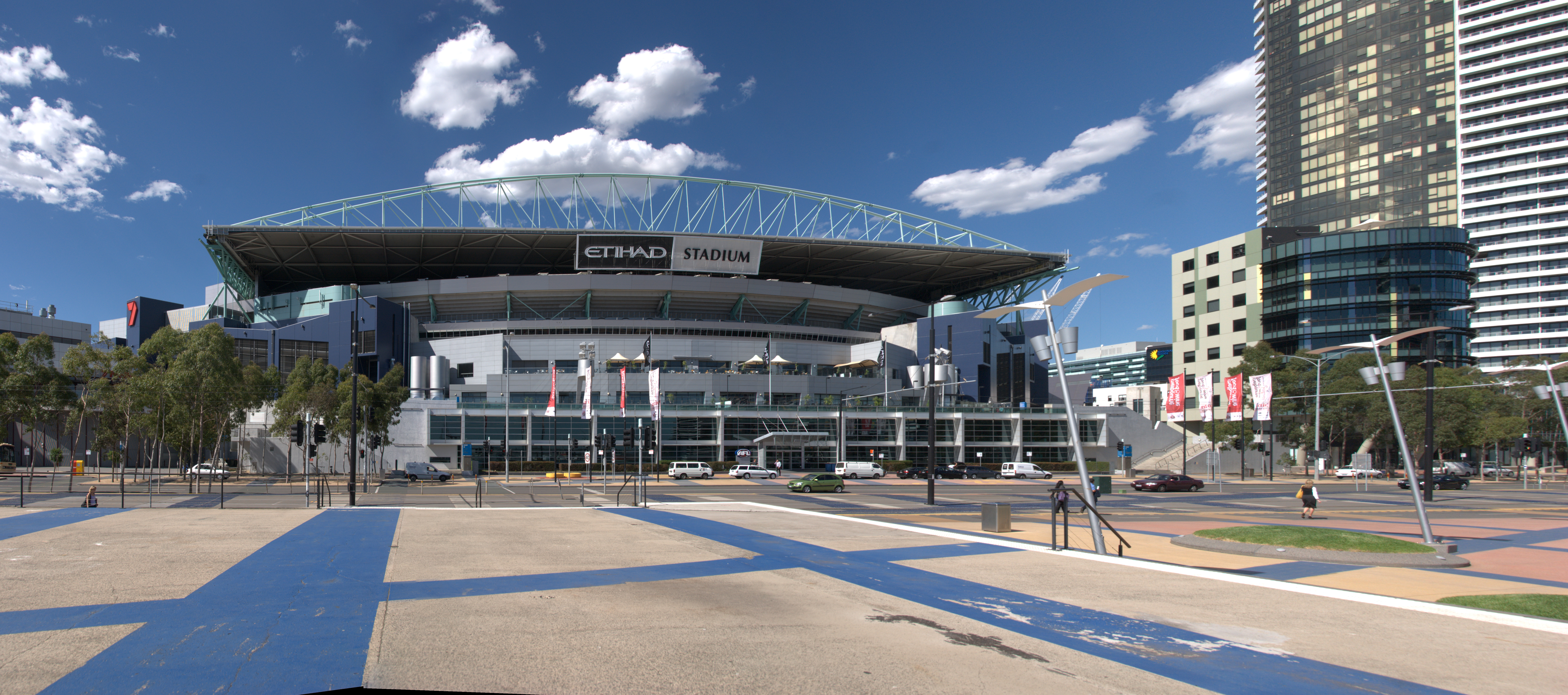 A view of the Docklands Stadium, currently known as Etihad Stadium, in Melbourne, Australia as seen from the Docklands waterfront. This image was constructed from three images stitched together using a planar projection.